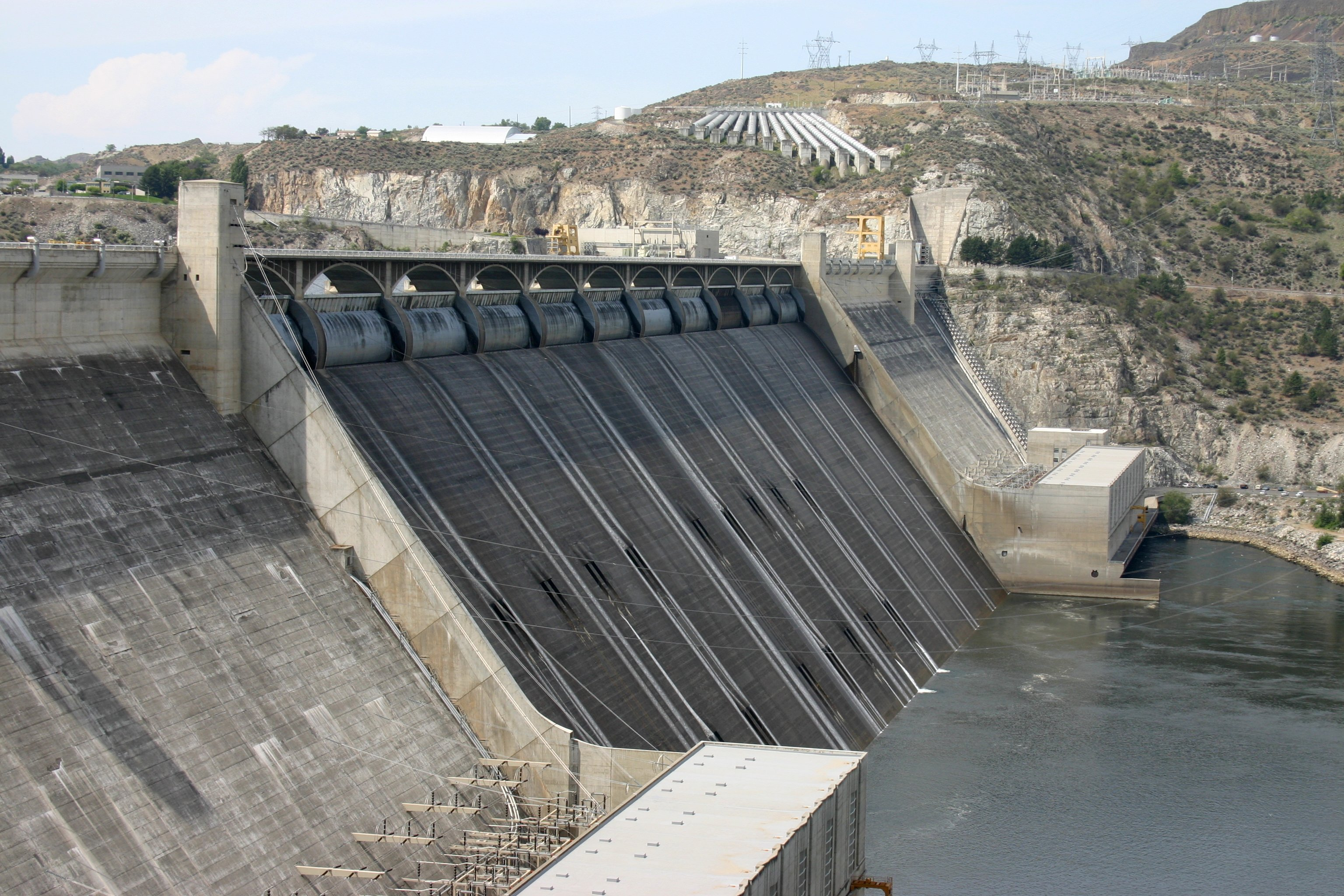 Grand Coulee Dam spillway in June 2009.